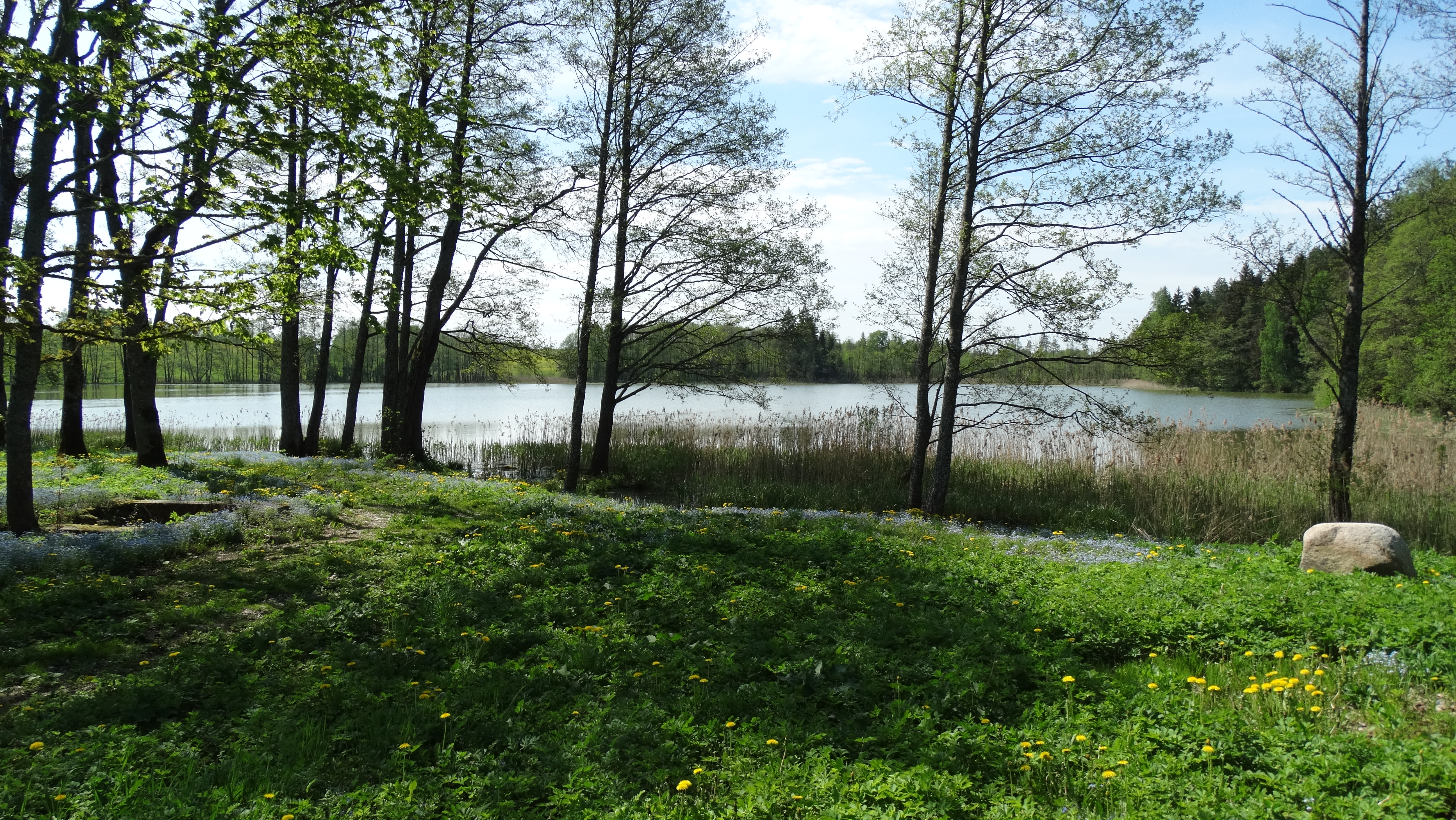 Baltys Lake, Molėtai district, Lithuania